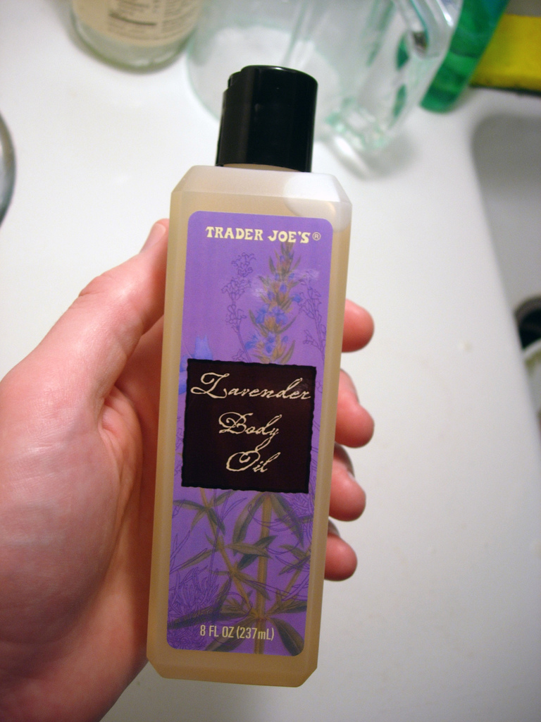 A plastic bottle of Trader Joe's brand lavender body oil. Ingredients may be found here. Photo taken in the United States, with an E5200 digital camera.